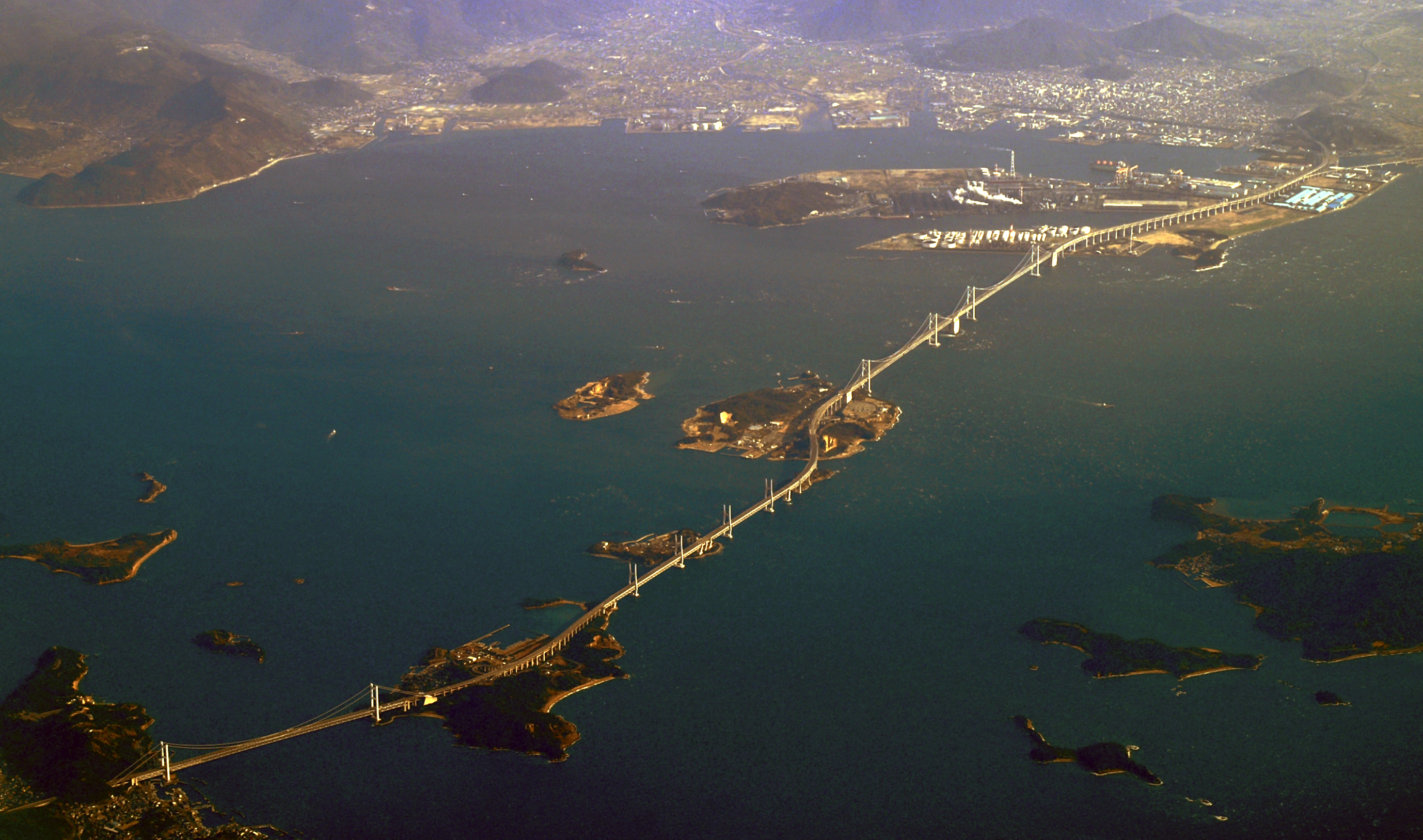 Aerial view of Great Seto Bridge linking Honshū and Shikoku islands in Japan